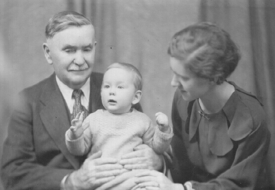 John Robert Boyle with his daughter Helen and her son Ian